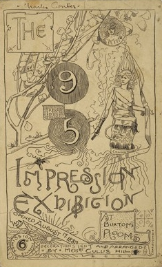 9 by 5 Impression Exhibition catalogue, photo–lithograph and letterpress on hand–made paper, 17.7 x 21.6 cm (open), 17.7 x 10.6 cm (closed), designed by Charles Conder